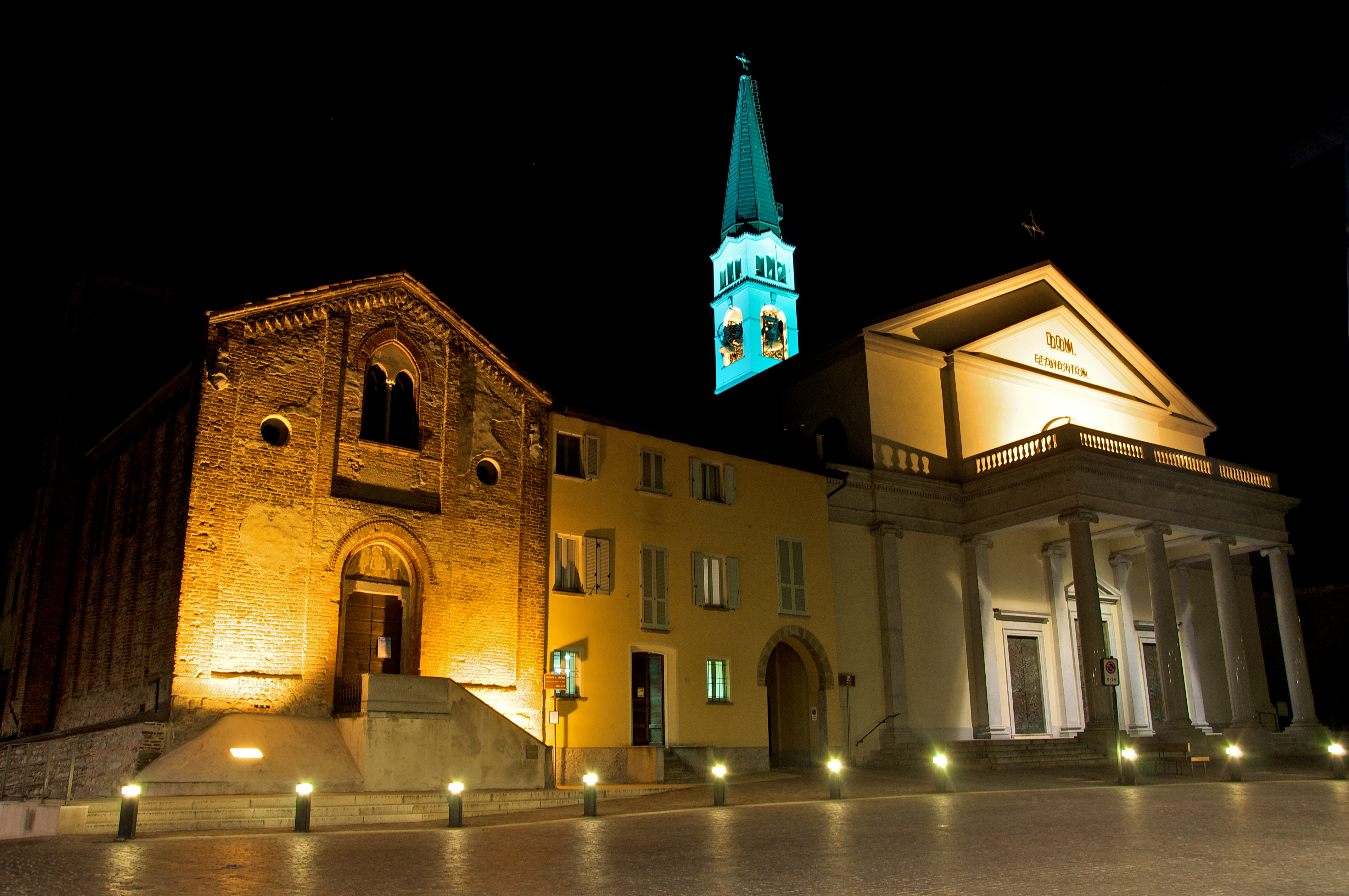 San Vito Martire Church in Piazza San Vito 27, Lentate sul Seveso, Monza Brianza